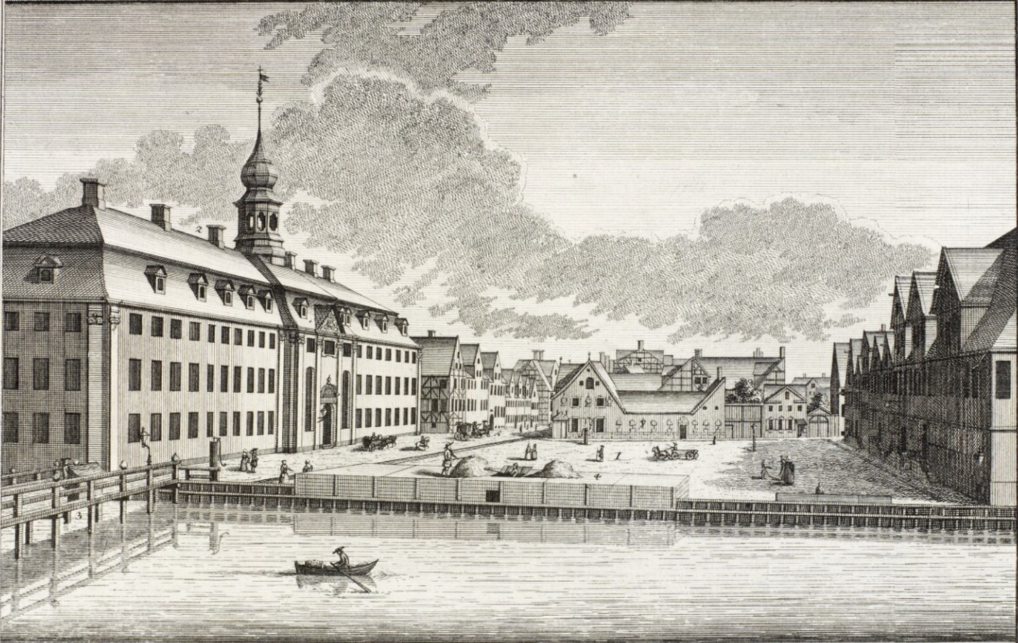 Vhristianshavns Torv in Copenhagen, Denmark